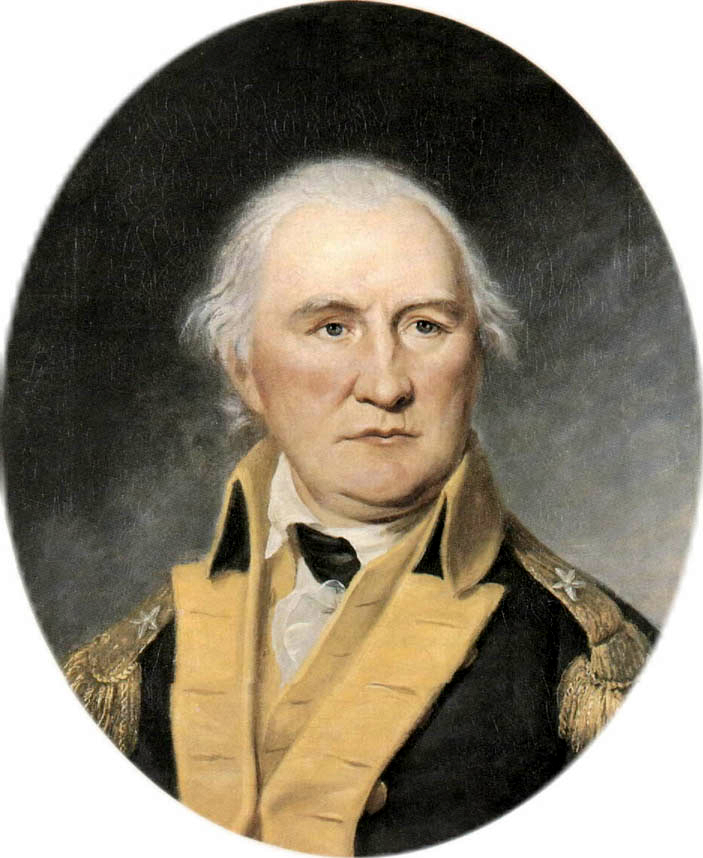 Portrait of Daniel Morgan, American general in the American Revolutionary War